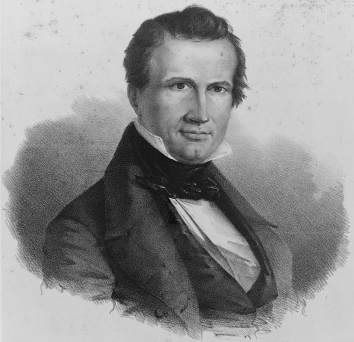 Kentucky Congressman William J. Graves